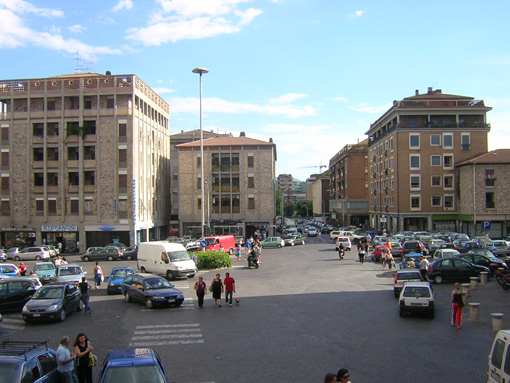 Terni (Italy)